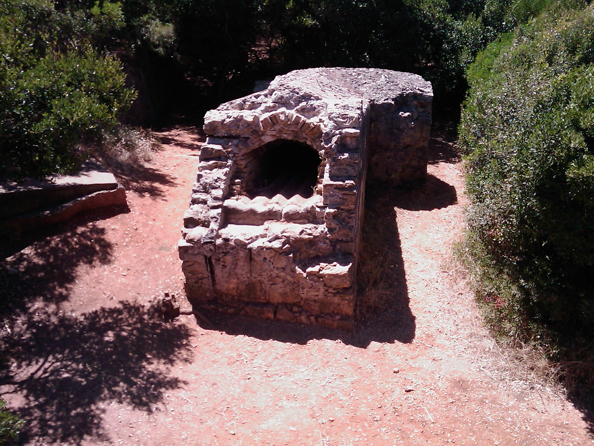 Furnace for red-hot bullets located in pointe du Dragon in île Sainte-Marguerite (Lérins Islands) off Cannes (Alpes-Maritimes department, France).